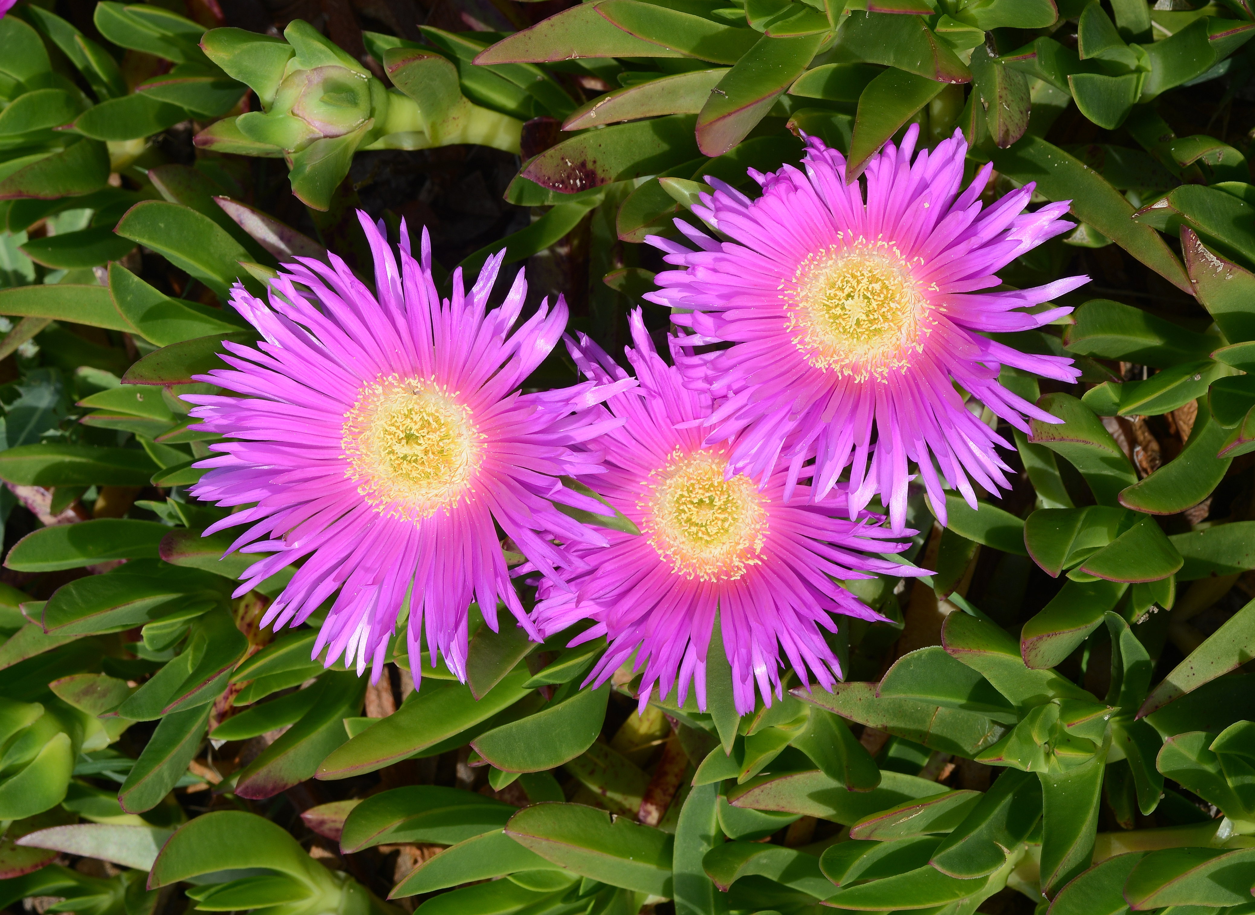 Flowers of Hottentot Fog (Carpobrotus edulis)